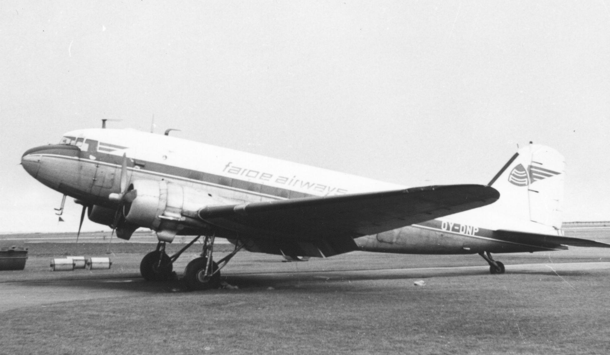 Douglas DC-3 (C-53D) OY-DNP of Faroe Airways